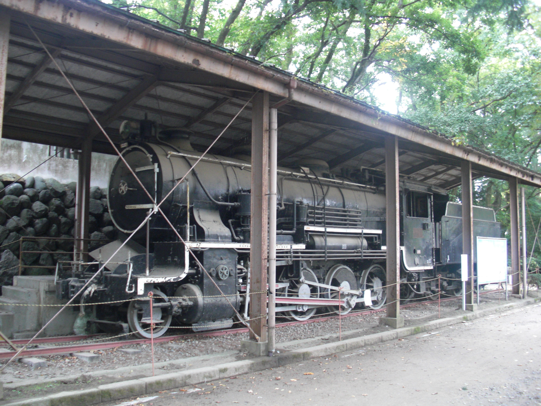 JNR Class 9600 steam locomotive 9628 preserved in Toyama, Toyama, Japan